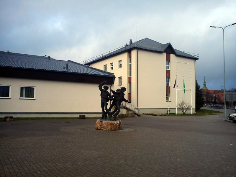 Vidzeme University of Applied Sciences, the main building